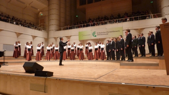 Christophorus-Kantorei Altensteig during Deutscher Chorwettbewerb 2010 in Dortmund.